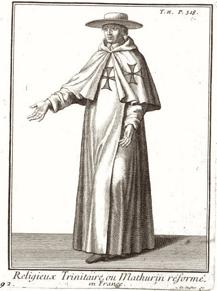 Trinitarian brother